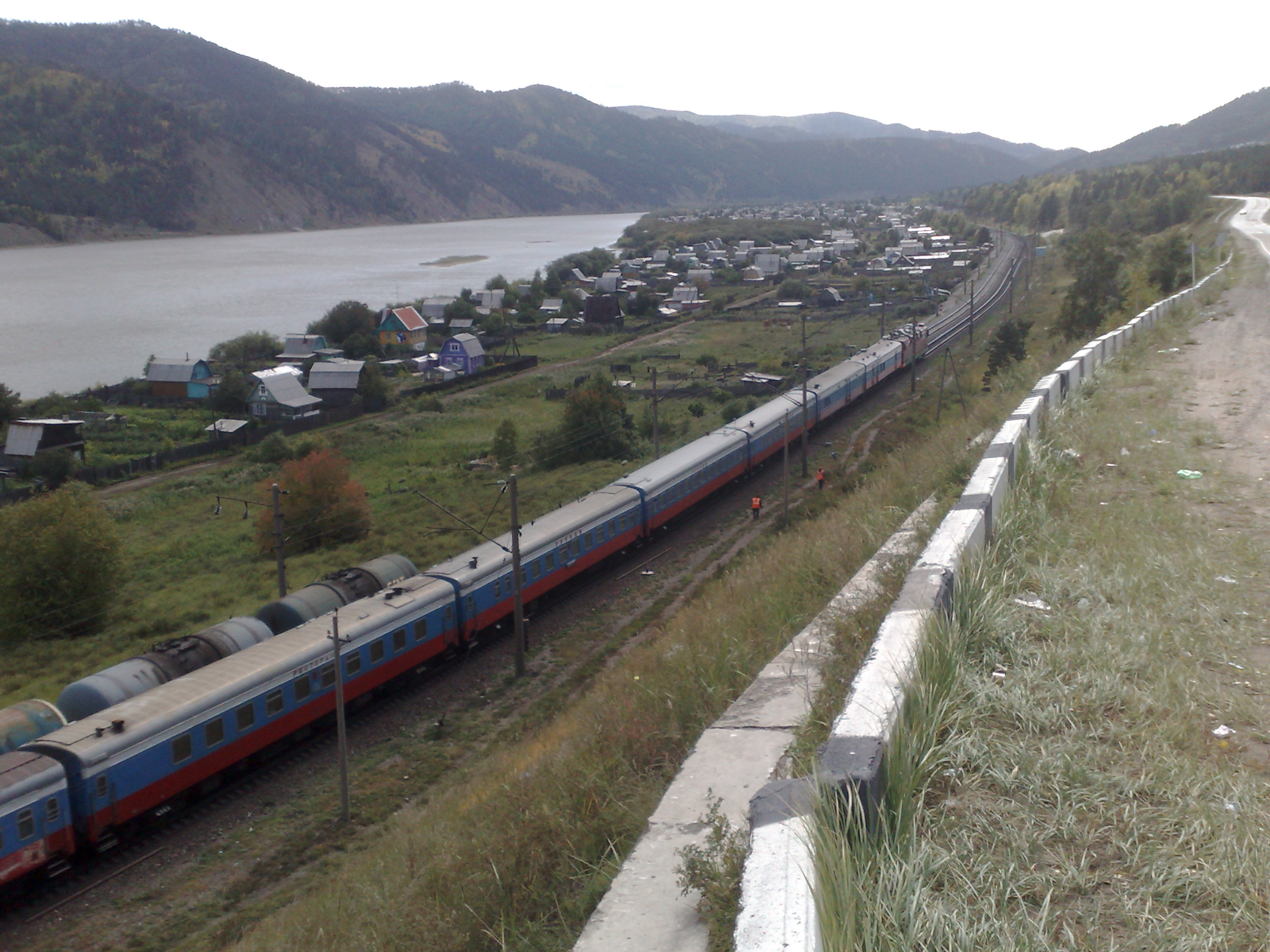 Buryatia, Russia. Transsiberian express heading along Selenga river